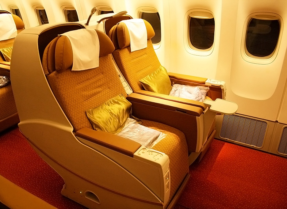 New Air India